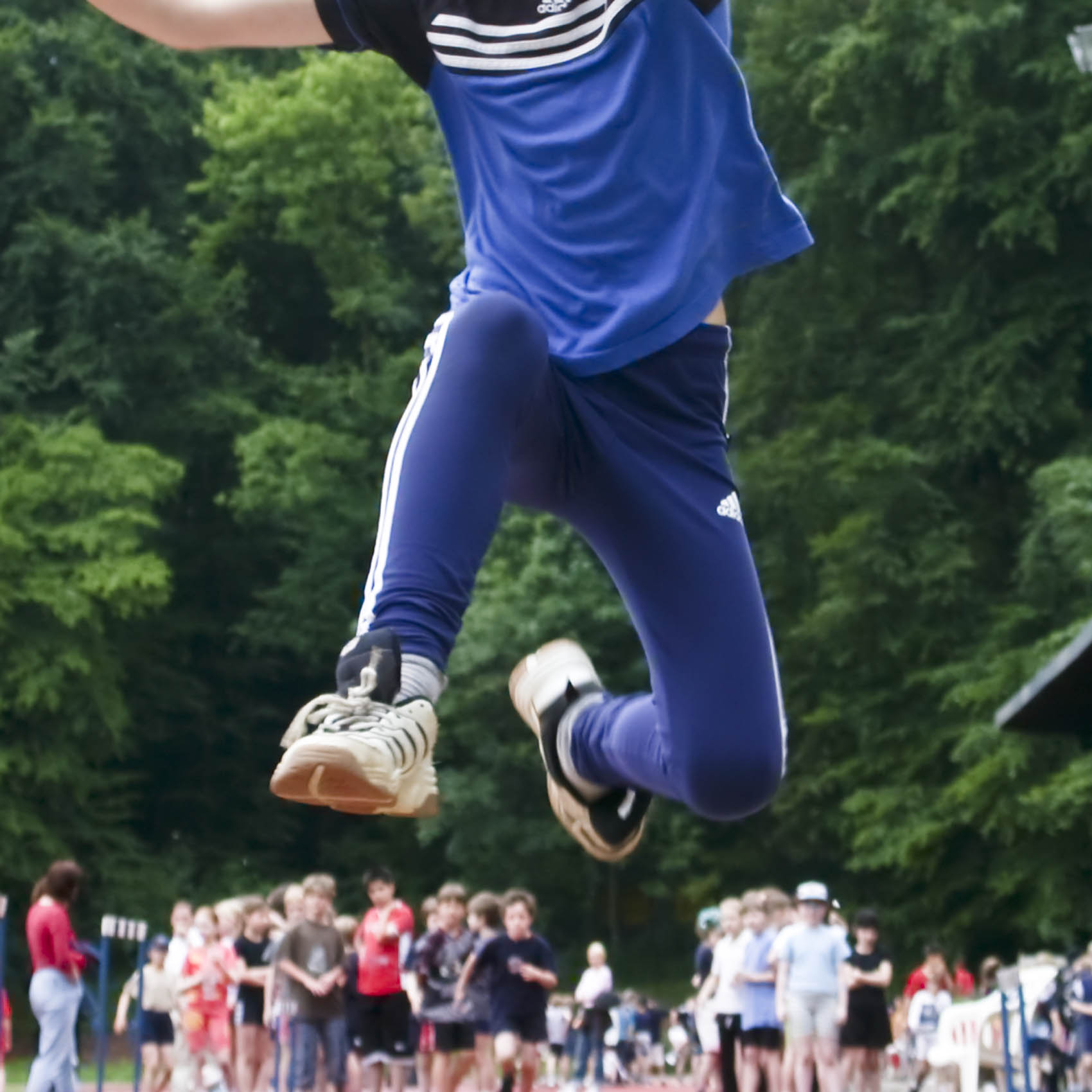 A young student is doing a long jump at a school competition. The rest is watching in the background.